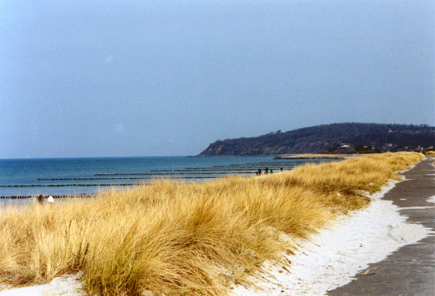 dunes on Hiddensee